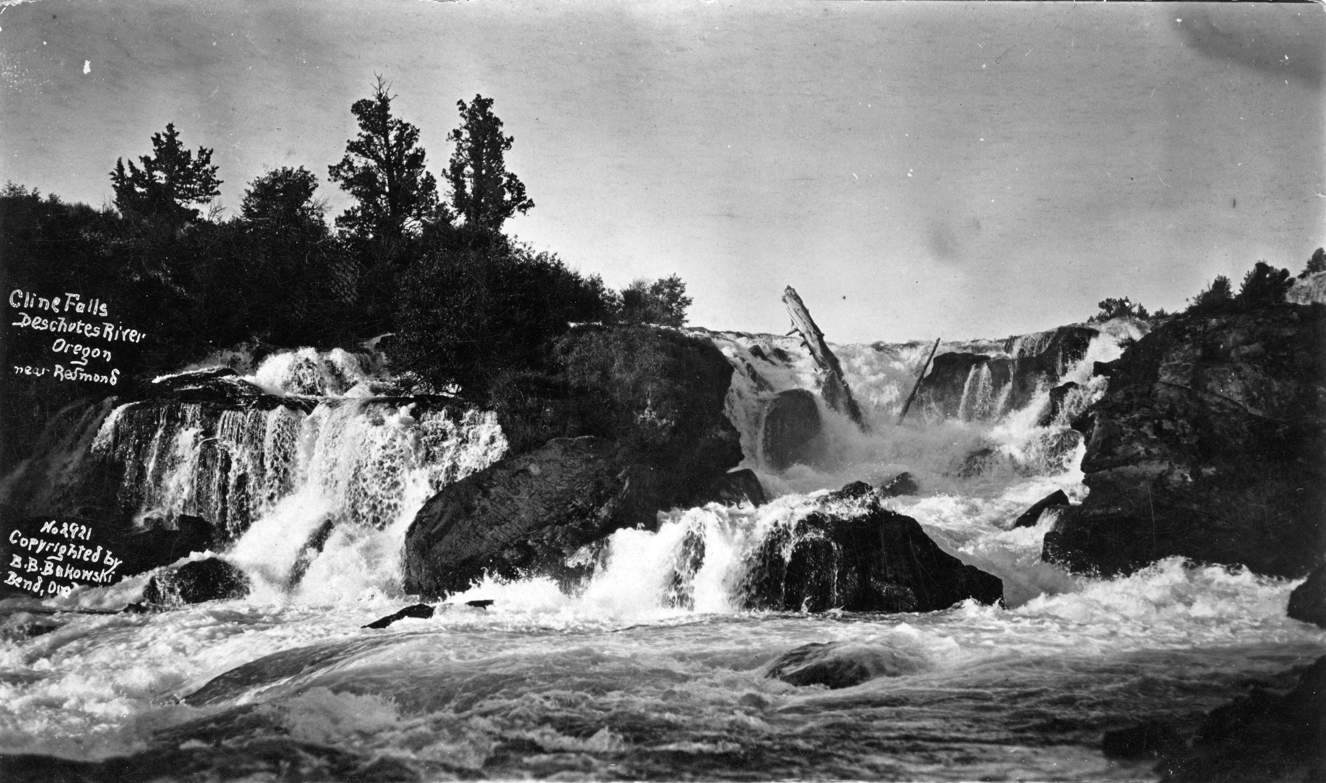 Original Collection: Gerald W. Williams Collection Item Number: WilliamsG_CO_Cline Falls1 You can find this image by searching for the item number by clicking here. Want more? You can find more digital resources online. We're happy for you to share this digital image within the spirit of The Commons; however, certain restrictions on high quality reproductions of the original physical version may apply. To read more about what “no known restrictions” means, please visit the Special Collections & Archives website, or contact staff at the OSU Special Collections & Archives Research Center for details.